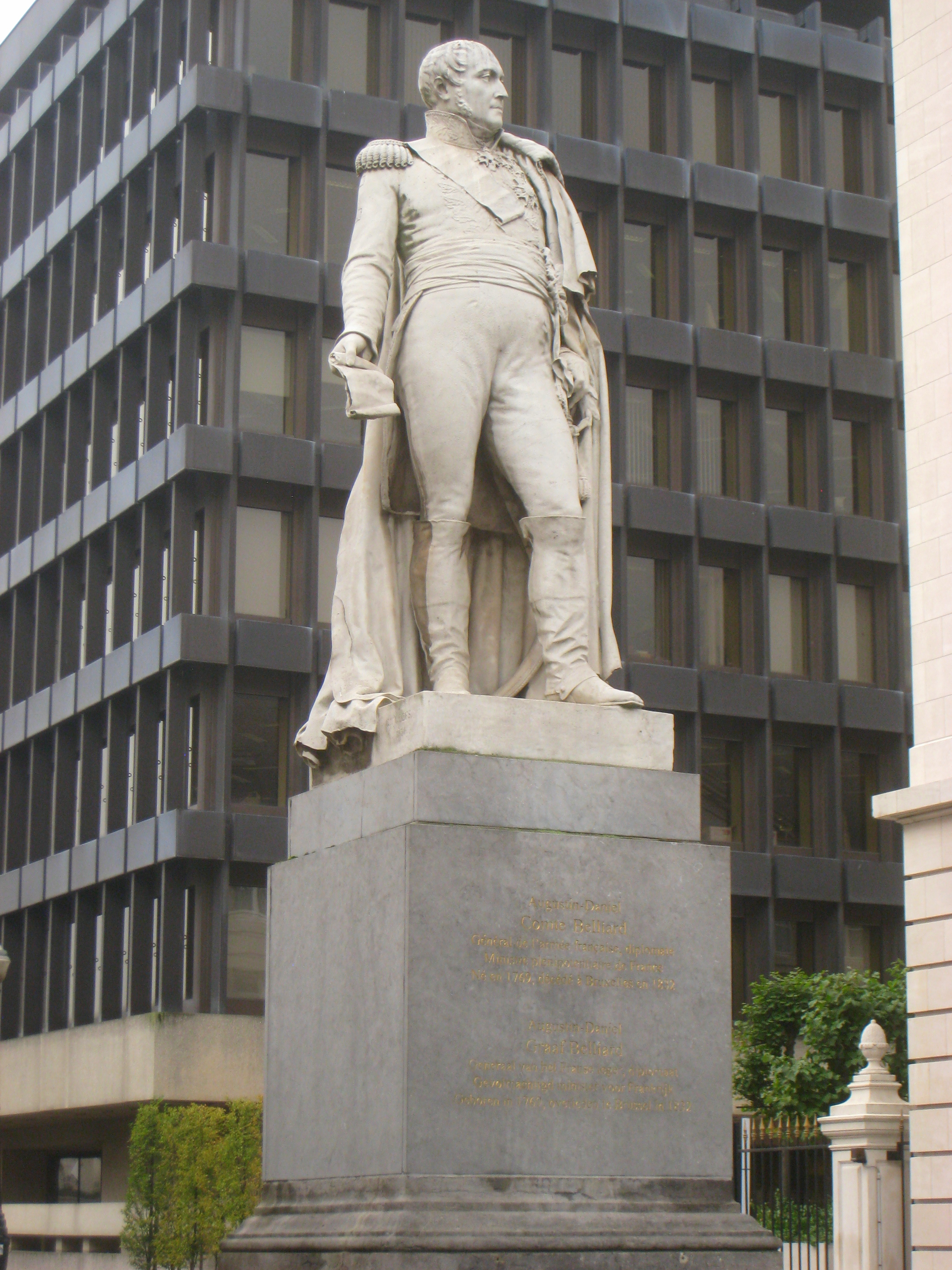 Statue of Augustin Daniel Belliard by Guillaume Geefs, Brussels, Belgium. Created 1836.